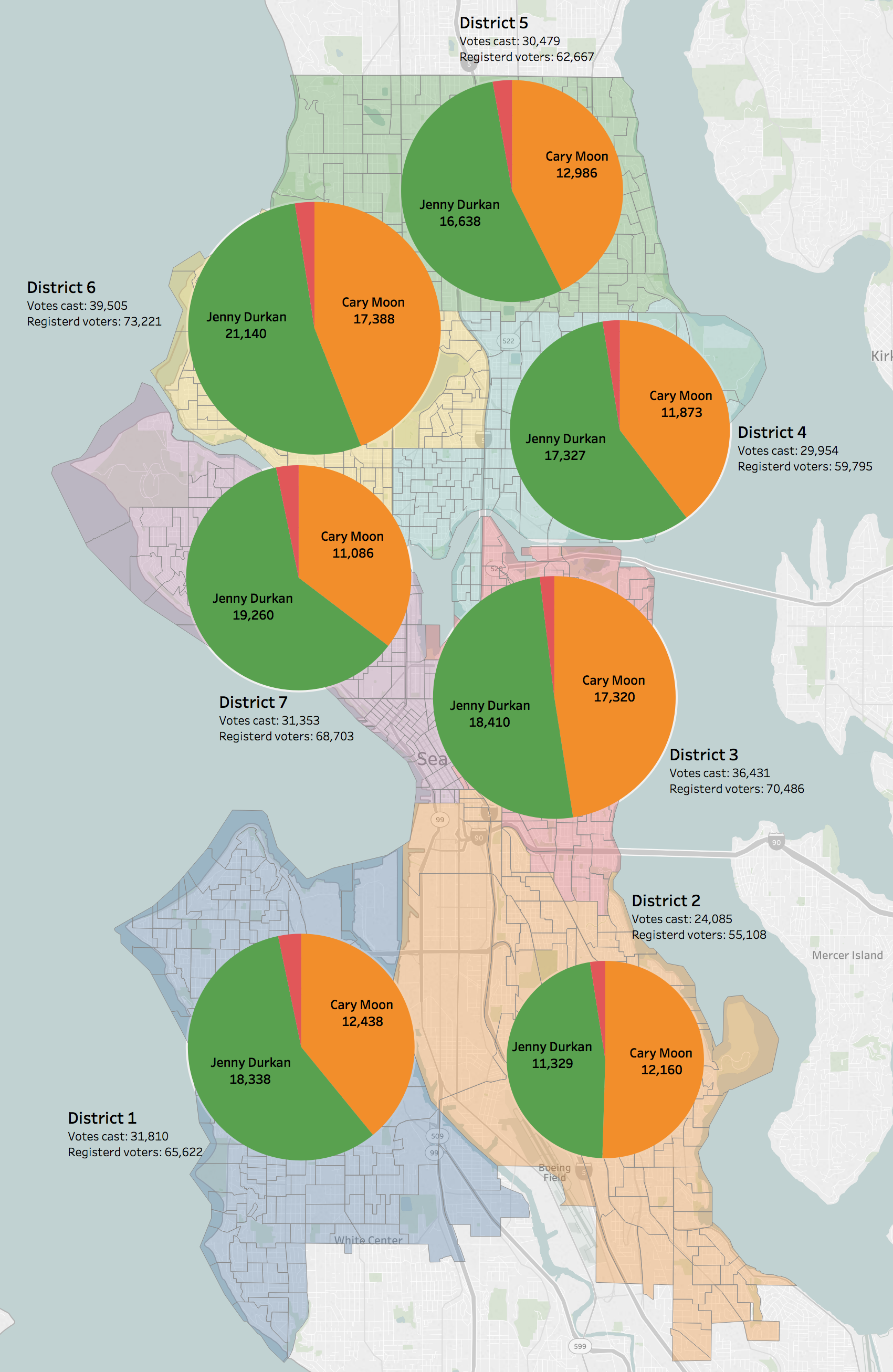 Final results of the Seattle mayoral election, 2017 by City Council District. Size of pie is total votes cast. Color shows candidates. Source: Final precinct level results CSV file 20171107-final-precinct-results.csv. Published November 29, 2017 by King County Elections.